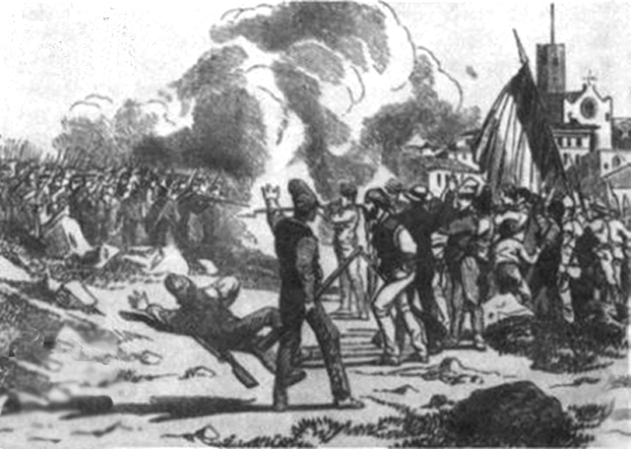 Popular rebellion in Partinico (Sicily) against borbonic army in 1860